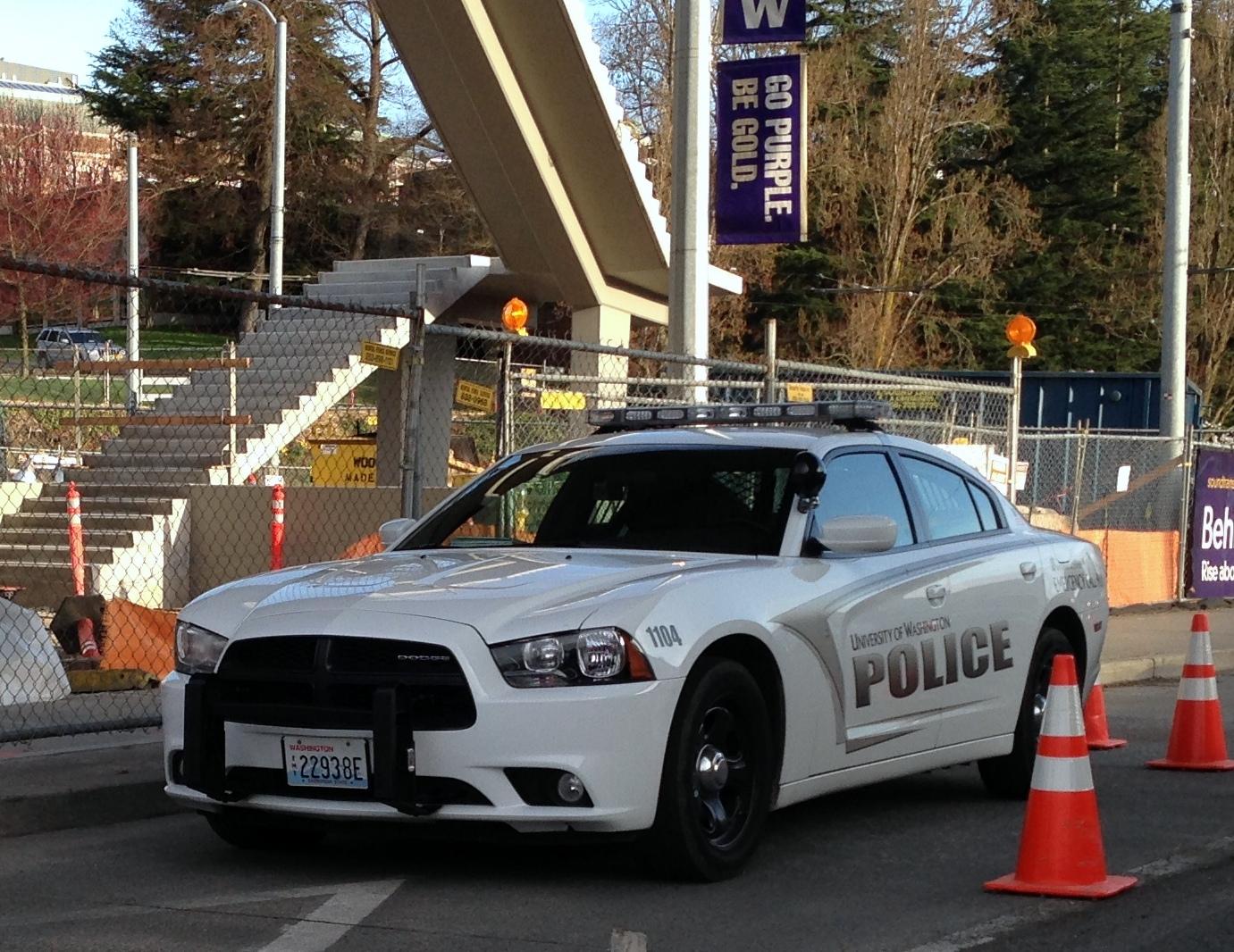 Dodge Charger Police Vehicle